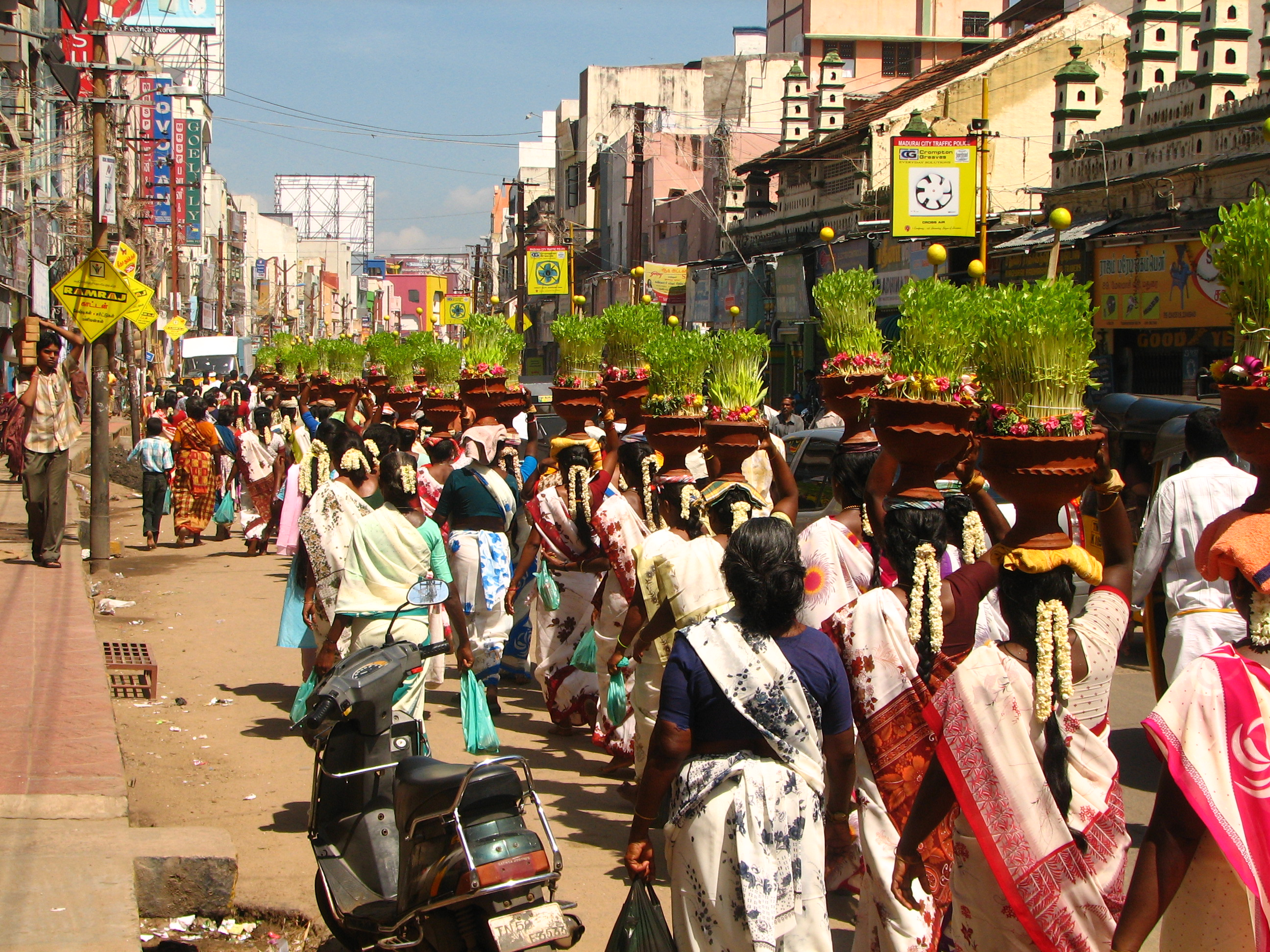 Women dressed in yellow sari carried ?mulaippari? (sprouts) on their heads and paid respects as part of the jayanthi to revered leader and activist Pasumpon Muthuramalinga Thevar. As well as these processions, the celebrations focused on the large Thevar statue a few km away at which I got to see the revelry and garlanding of the statue by various parties and groups.